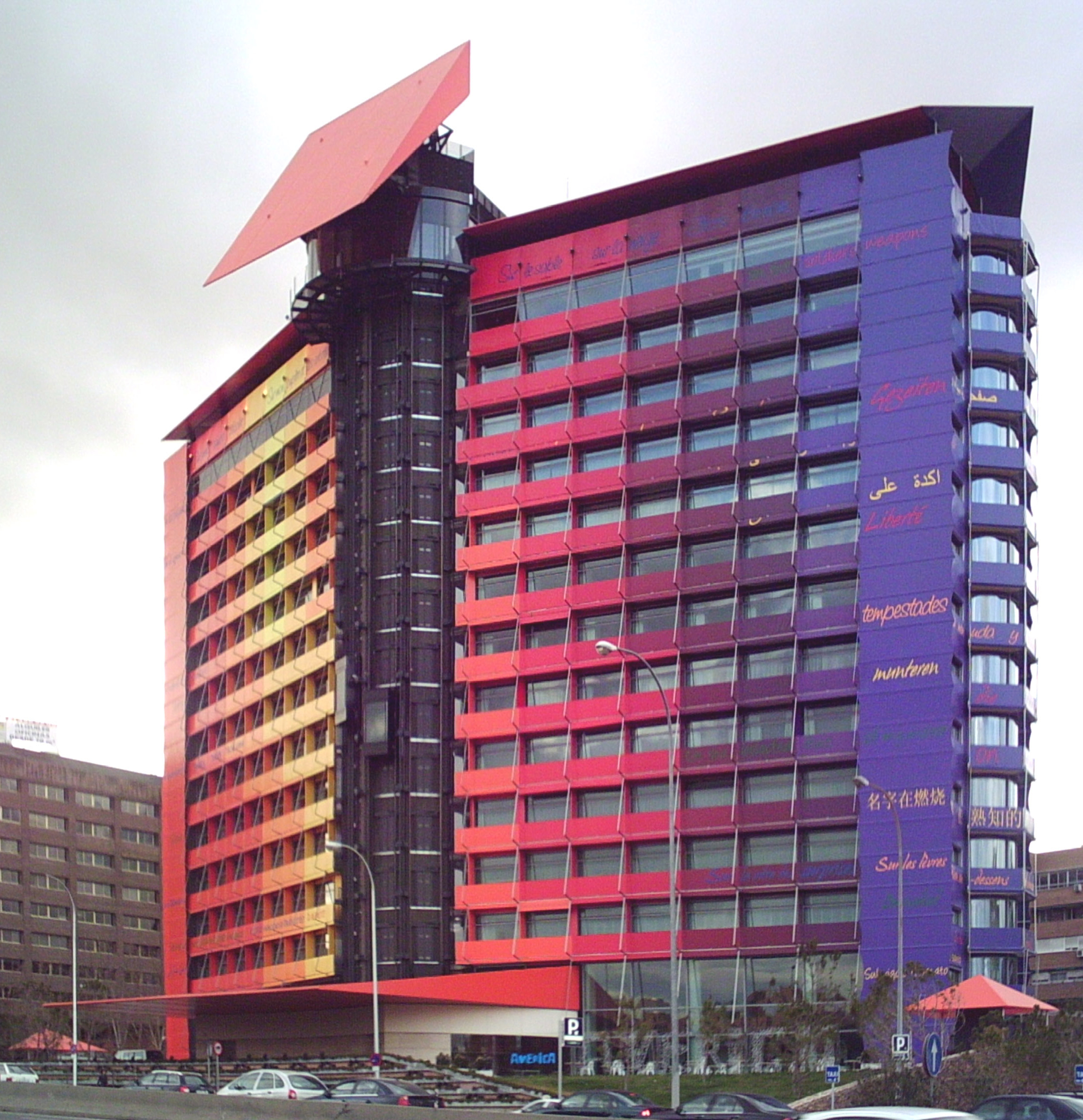 Puerta América Hotel (Madrid, Spain, built: 2003–2005). Façade designed by Jean Nouvel (born 1945).